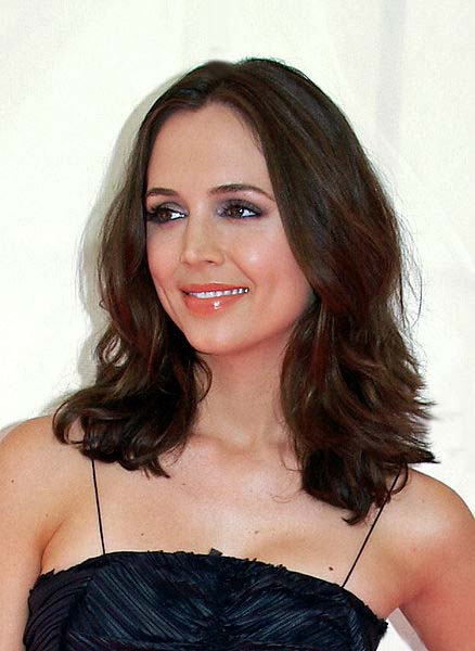 Eliza Dushku at the 2007 Tribeca Film Festival.